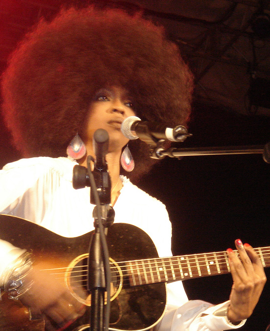 Lauryn Hill at Central Park